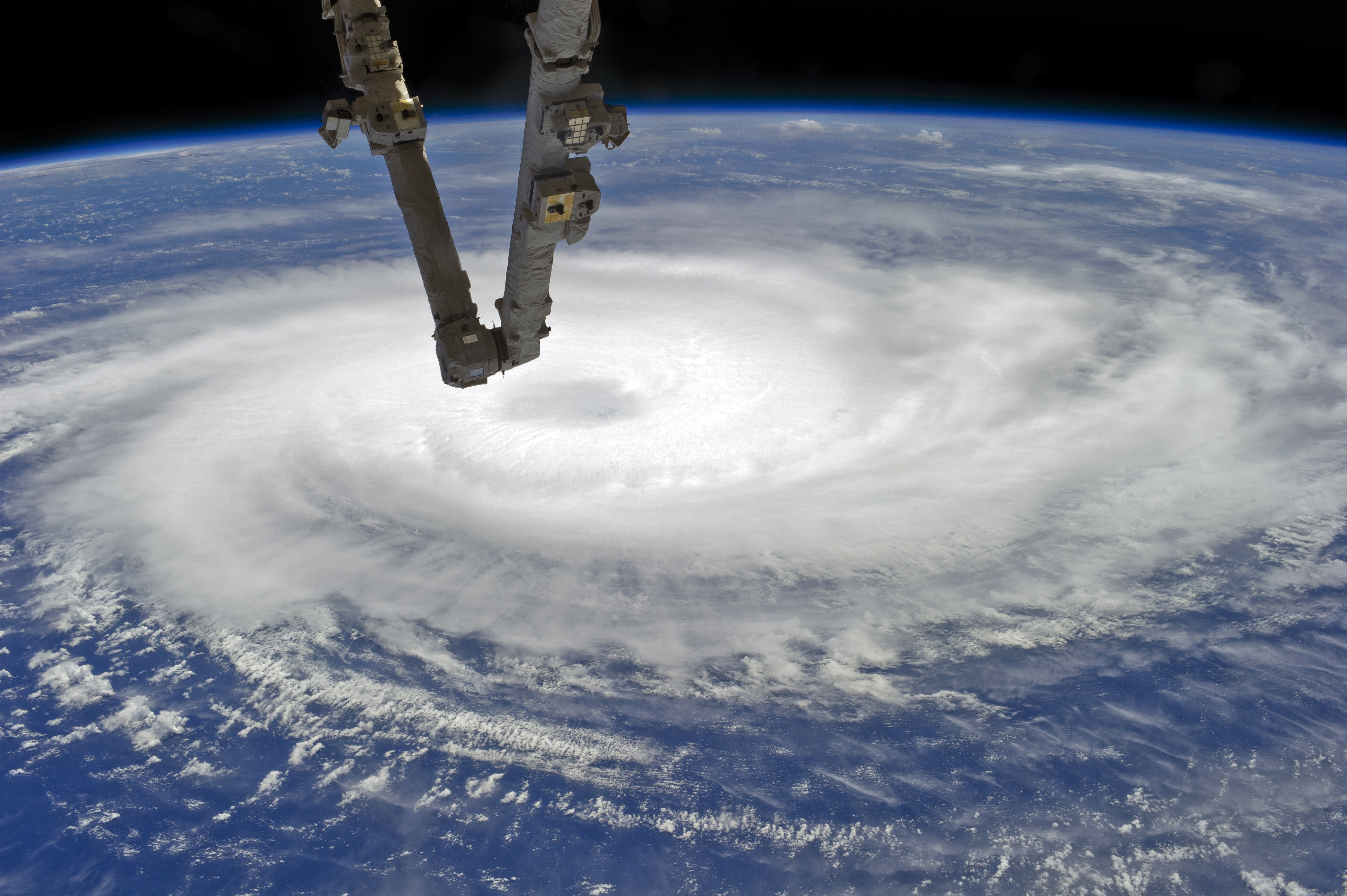 ISS crew photo of Tropical Cyclone Amara on December 20, 2013. ISS Crew Earth Observations: ISS038-E-18501 Identification Mission ISS038 (Expedition 38) Roll E Frame 18501 Country or Geographic Name INDIAN OCEAN Features PAN-TROPICAL CYCLONE AMARA, EYE, CONVECTIVE BANDS, ATMOSPHERIC LIMB, ISS Center Point Latitude -18.5° N Center Point Longitude 65.5° E Camera Camera Tilt 50° Camera Focal Length 55 mm Camera Nikon D3S Film 4256 x 2832 pixel CMOS sensor, 36.0mm x 23.9mm, total pixels: 12.87 million, Nikon FX format. Quality Percentage of Cloud Cover 76-100% Nadir What is Nadir? Date 2013-12-20 Time 06:43:01 Nadir Point Latitude -18.8° N Nadir Point Longitude 61.0° E Nadir to Photo Center Direction East Sun Azimuth 109° Spacecraft Altitude 225 nautical miles (417 km) Sun Elevation Angle 73°